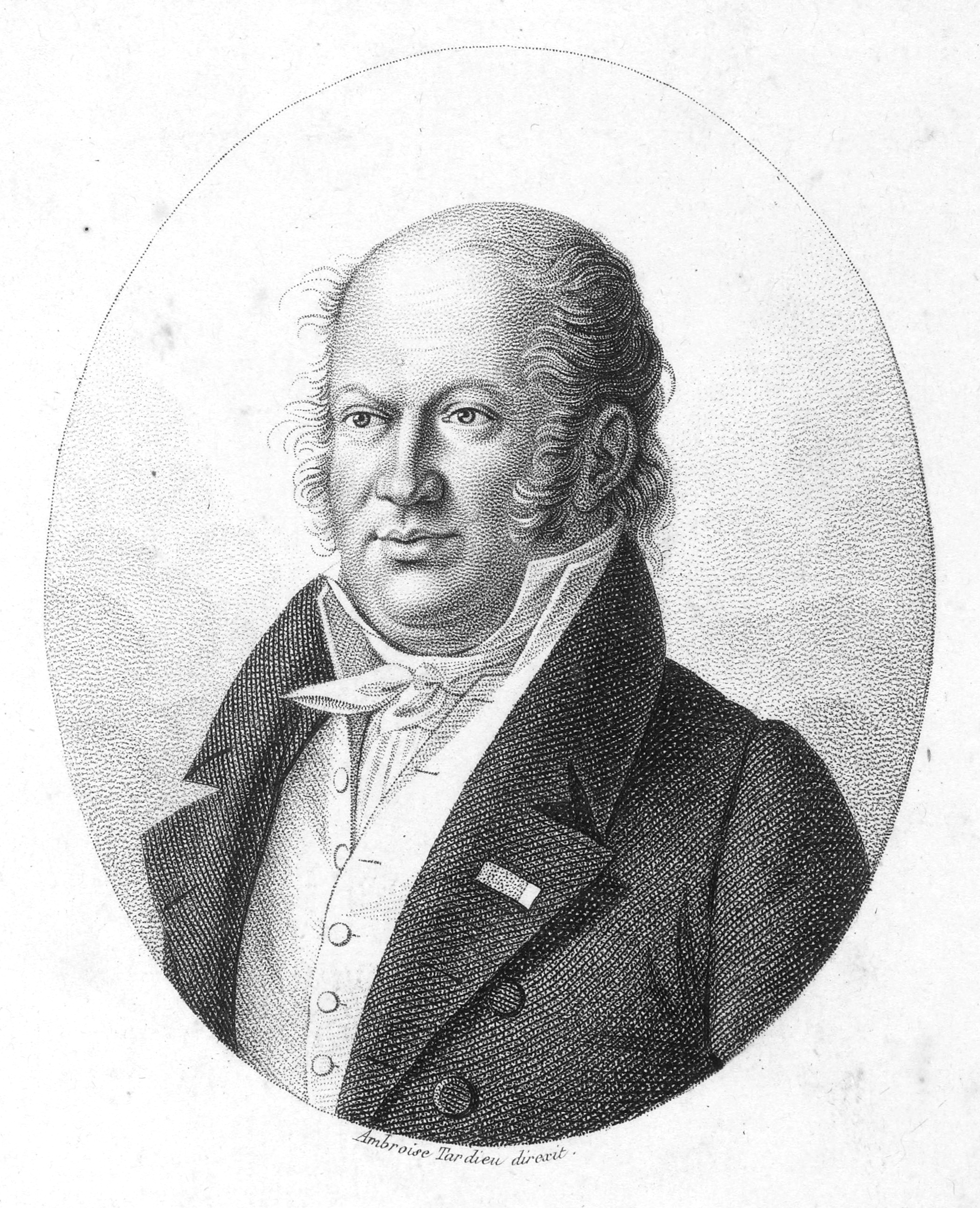 Geoffroy Saint Hilaire, Etienne (1772 - 1844). Medium: Engraving.